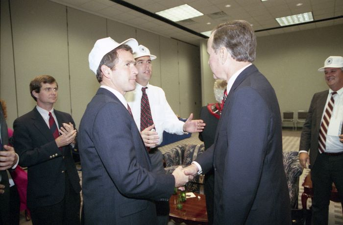 Vice President George H. W. Bush watches election returns with family and friends in Houston, including George W. Bush, Jeb Bush, and Lee Atwater.